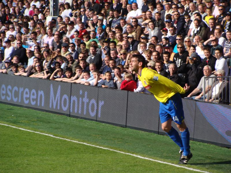 Rory Delap of Stoke City, with a presumably long free throw